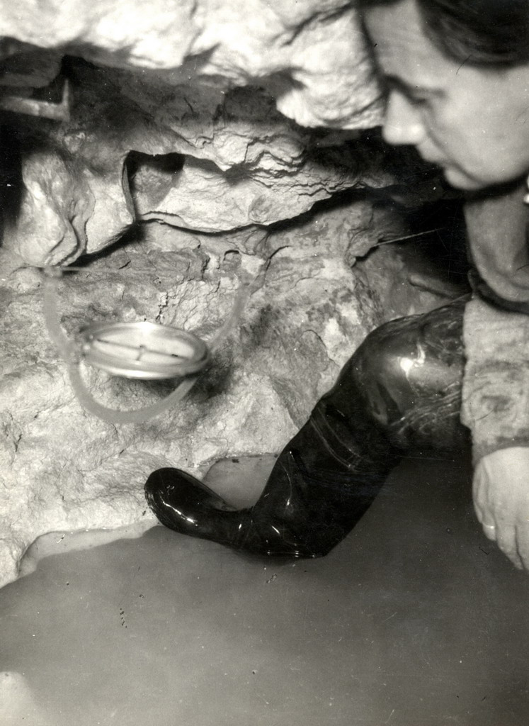 Hubert Kessler during survey